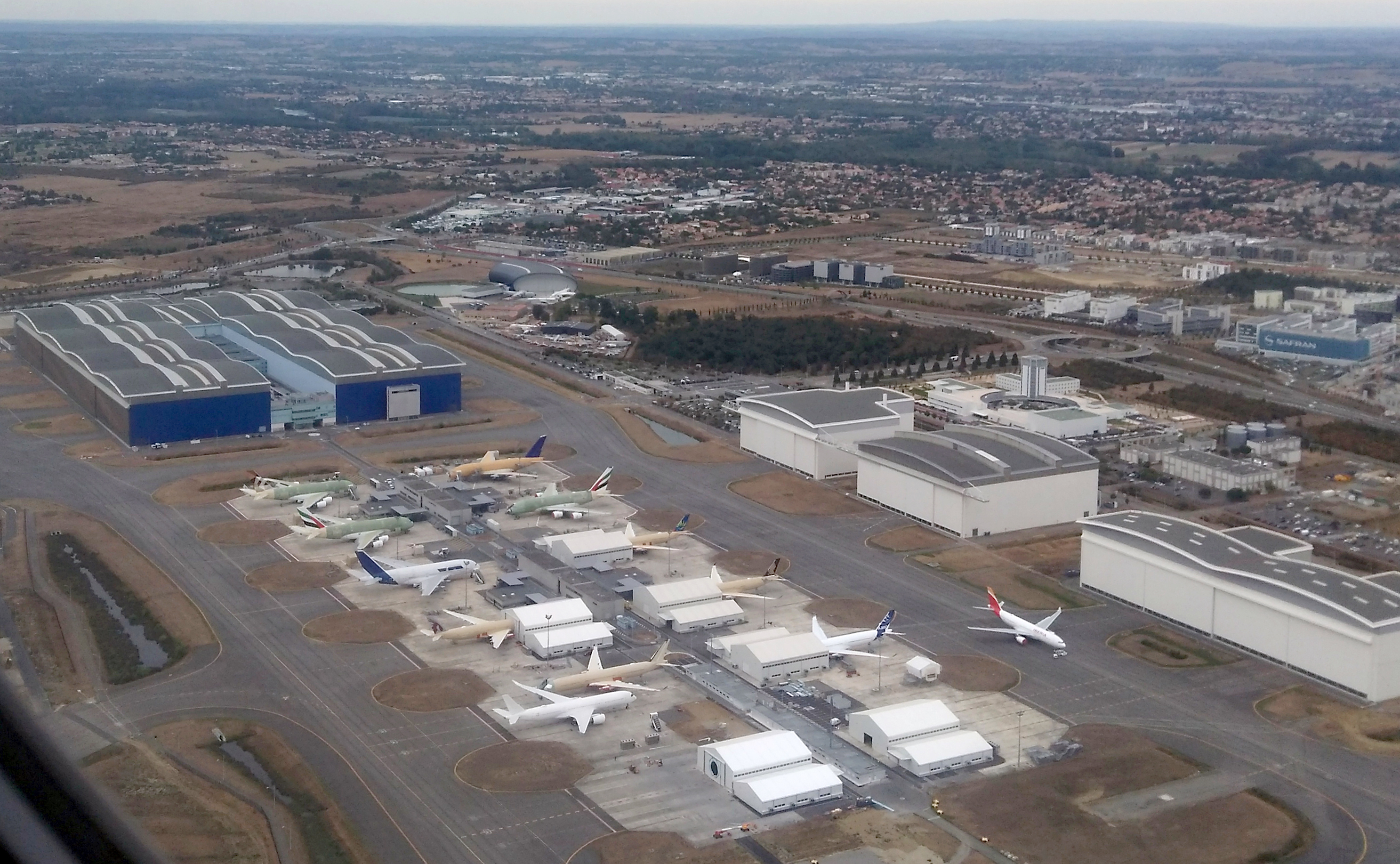 Aerial view of the Airbus plant Lagardère. In the background the Aéroconstellation area with the Aeroscopia museum and the association Ailes Anciennes Toulouse.